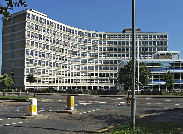 Former UDT Headquarters in Cockfosters. Large office block in Cockfosters, formerly the headquarters of the United Dominions Trust.